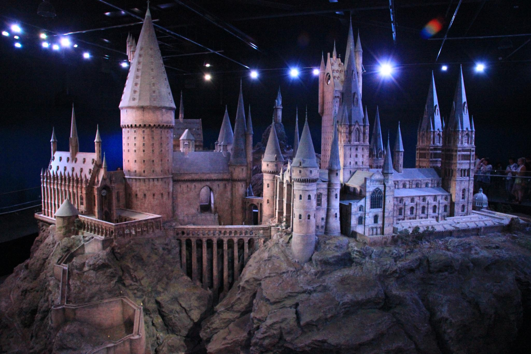 The 1:24 scale Hogwarts model used for filming on display at Warner Bros. Studios, Leavesden, for The Making of Harry Potter studio tour